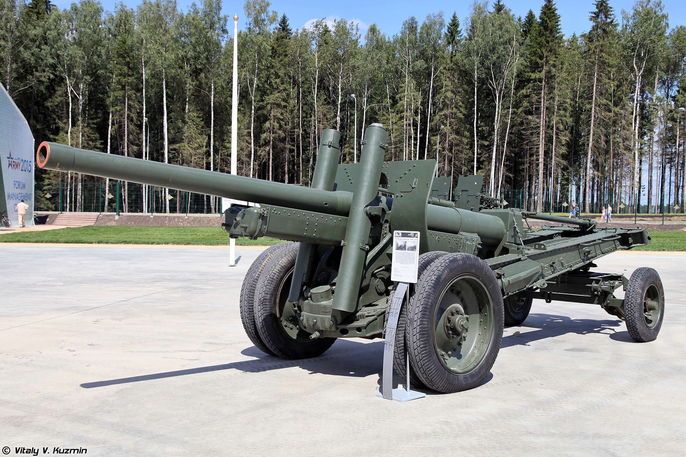 122mm corps gun M1931/37 A-19